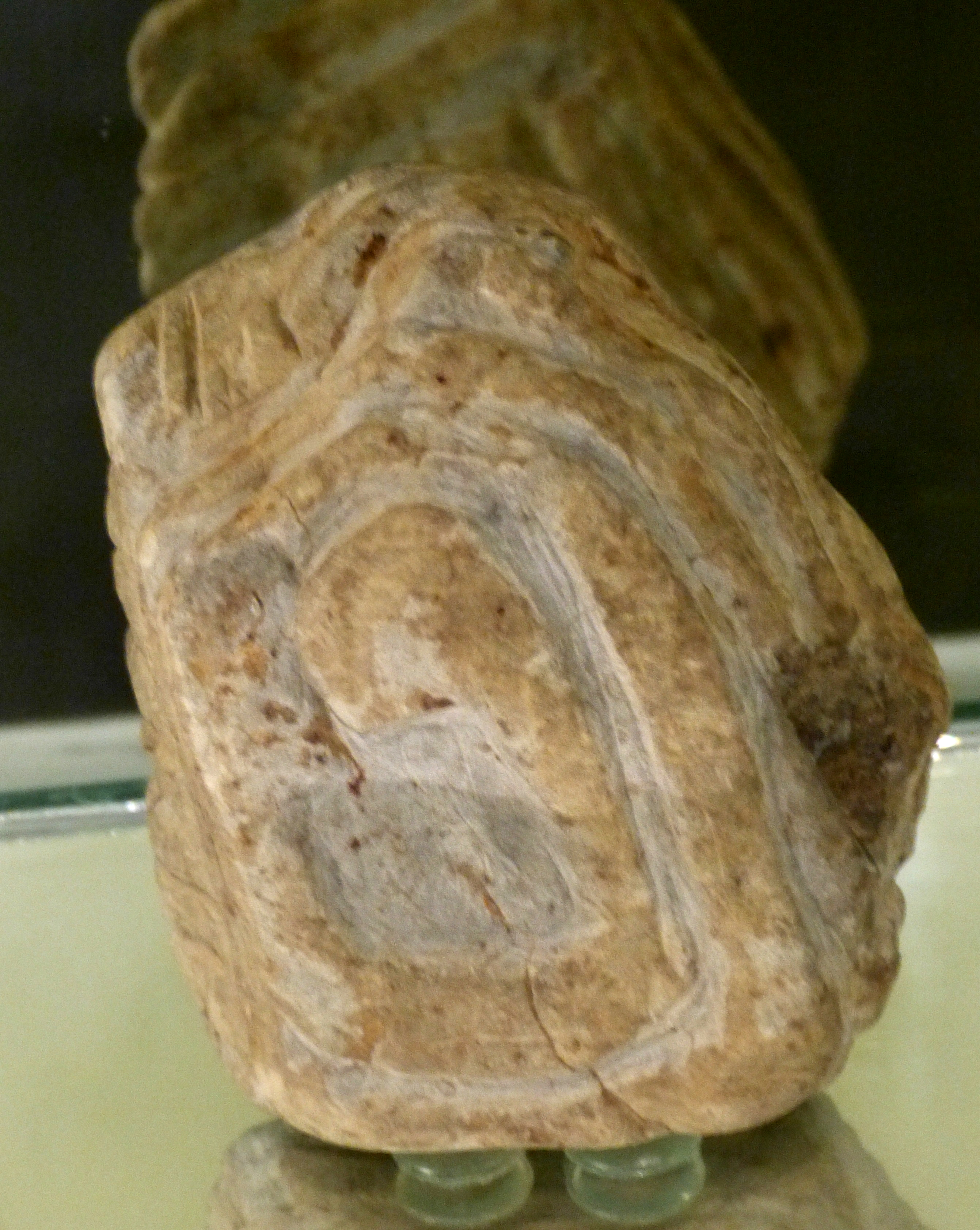 Santa Cruz de Tenerife ( Spain ). Museo de la Naturaleza y el Hombre - Guanche collections: Petroglyph.